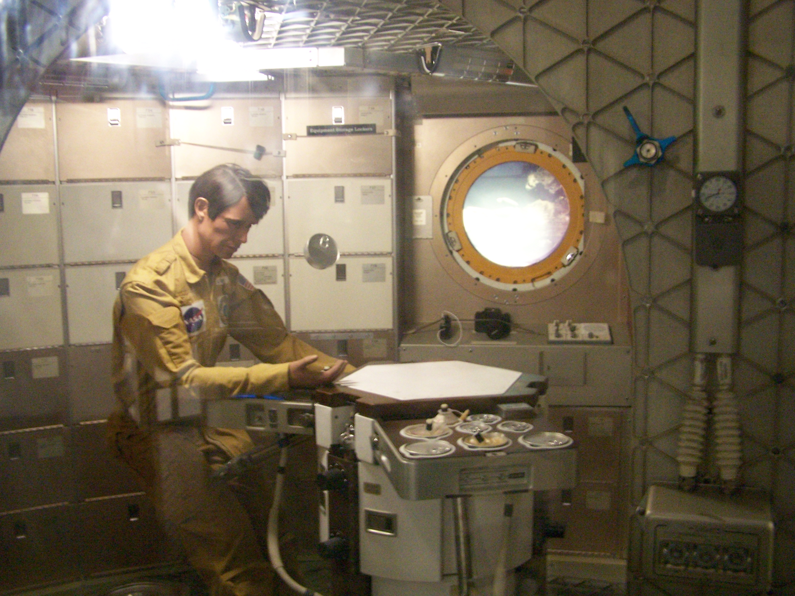 Skylab backup at the Smithsonian NASM